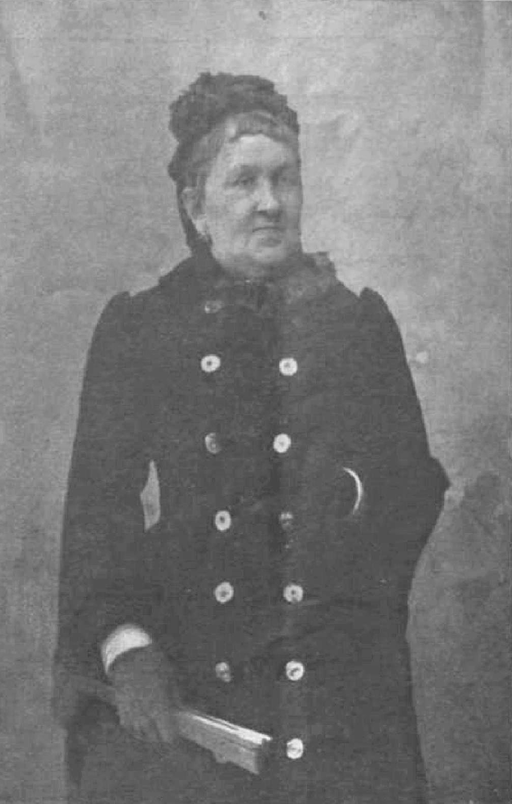 Mother of Dezső Bánffy